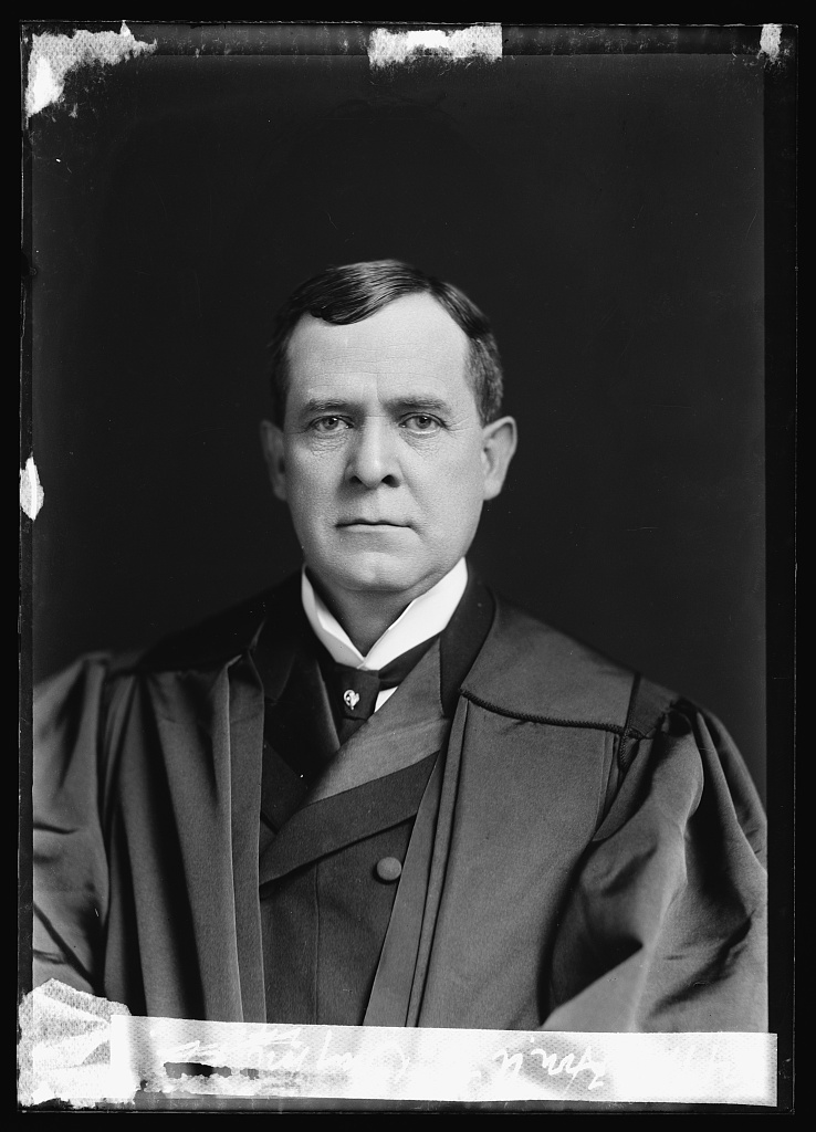 Alston Gordon Dayton by C. M. Bell Studio